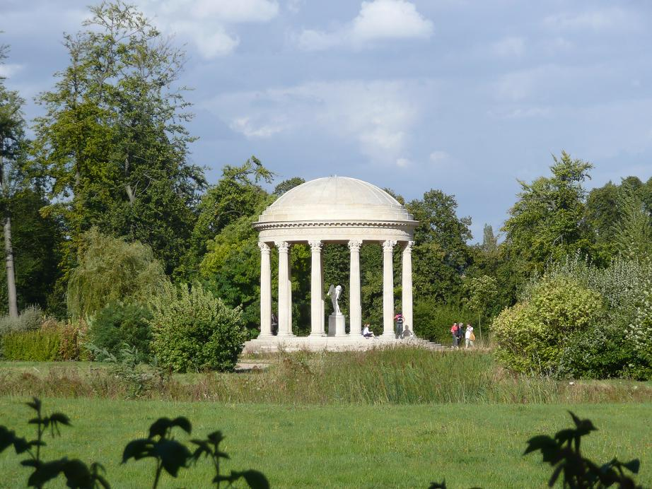 The Temple of Love, Palace of Versailles